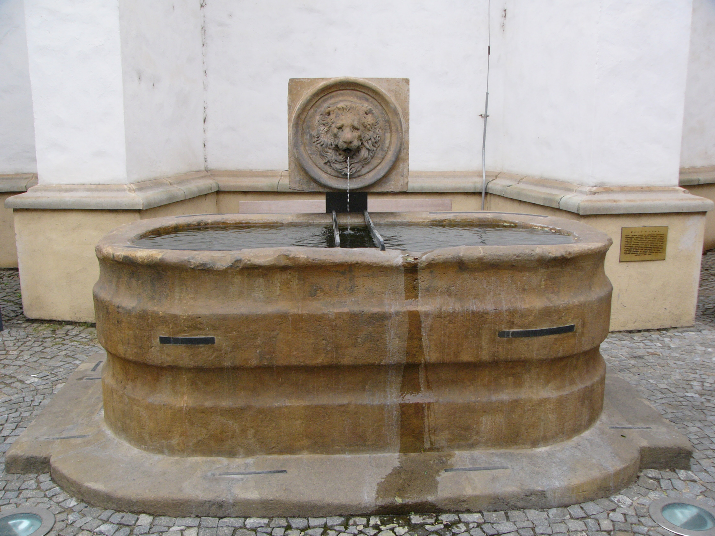 Dolphins Fountain in Sokolská street in Olomouc (Czech Republic).